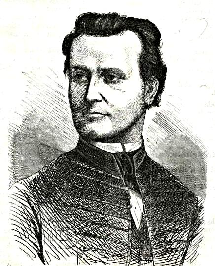 Portrait of Kálmán Szerdahelyi